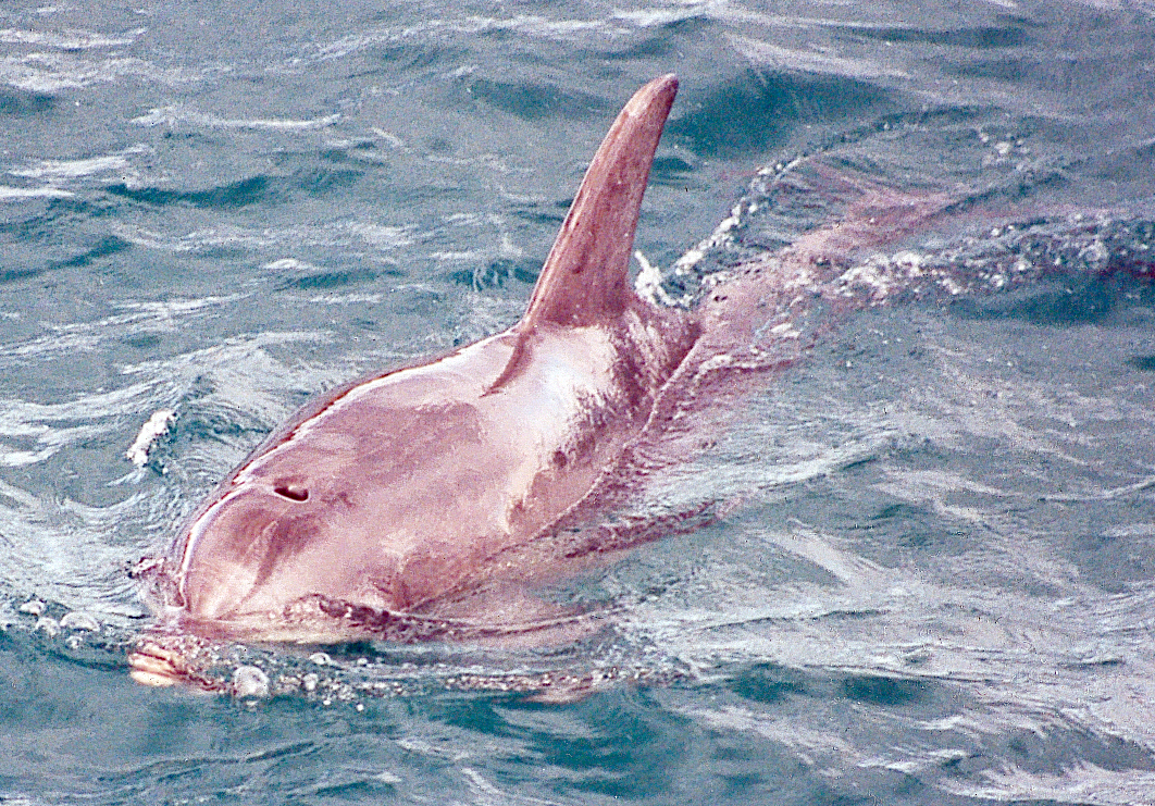 Dolphin, Port Phillip Bay, Victoria, Australia.